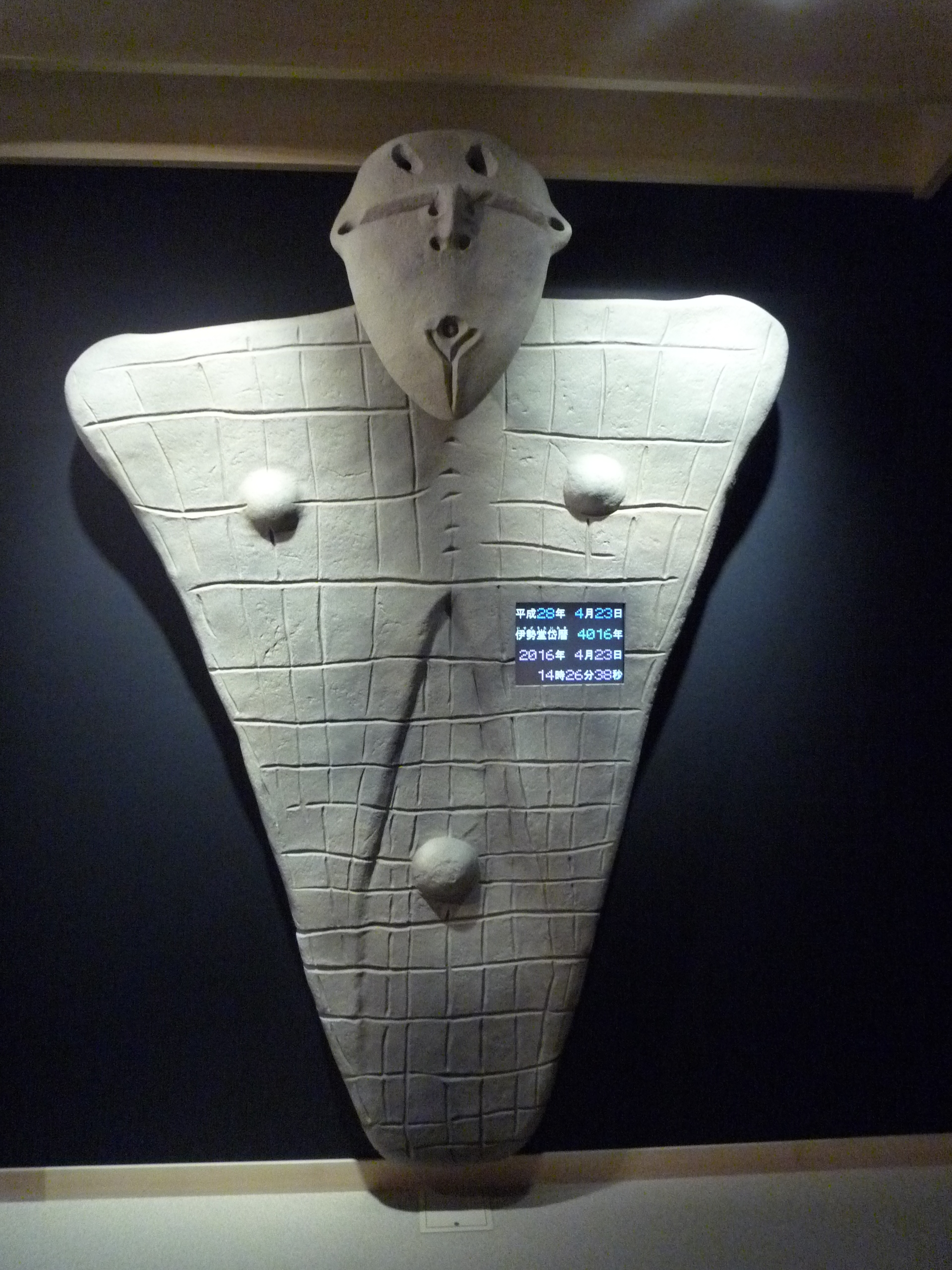 Dogu at the Isedotai Jomonkan museum in Kitaakita City, Akita Prefecture, Japan